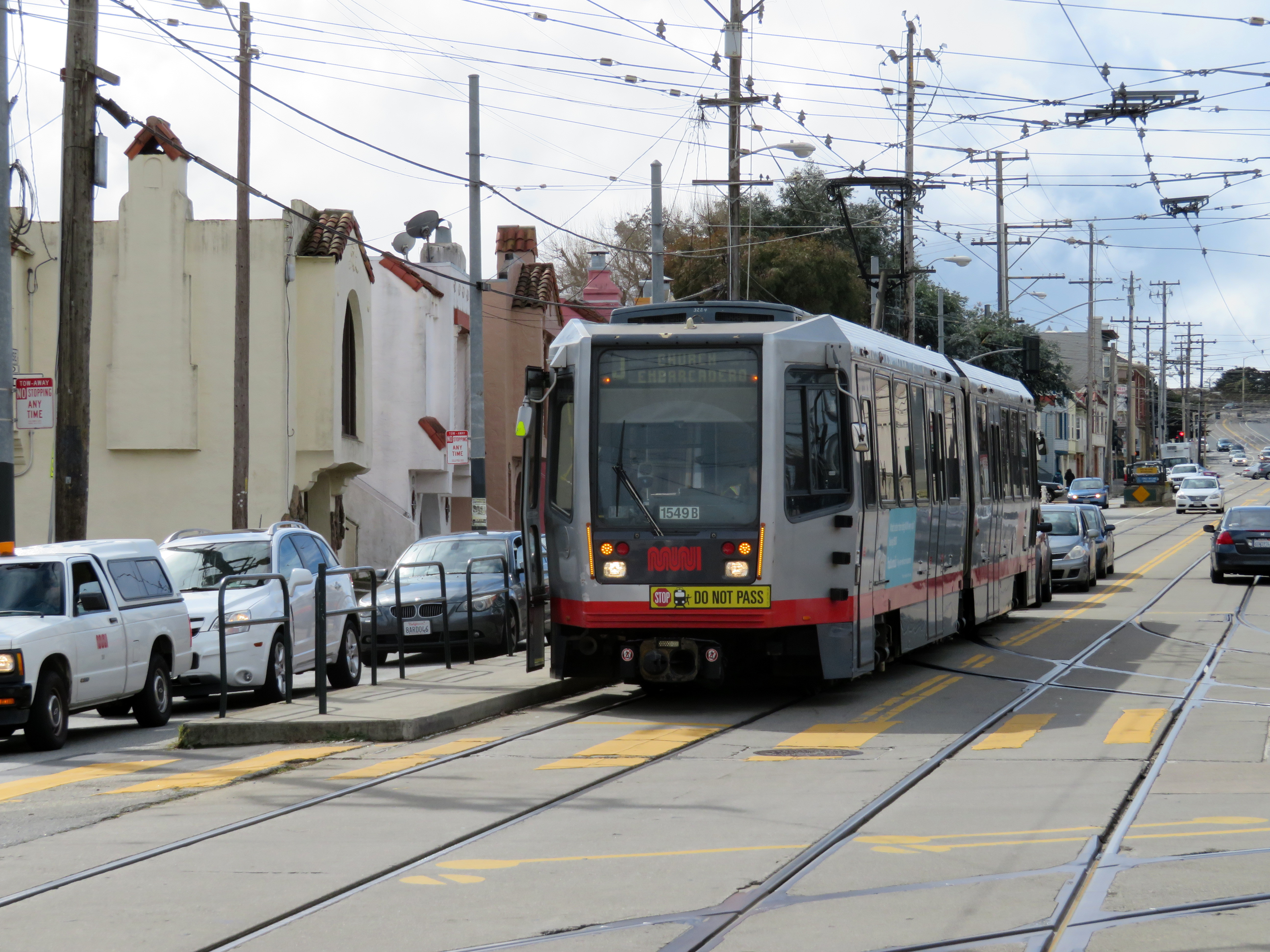 Inbound J Church train at San Jose and Ocean station in March 2018